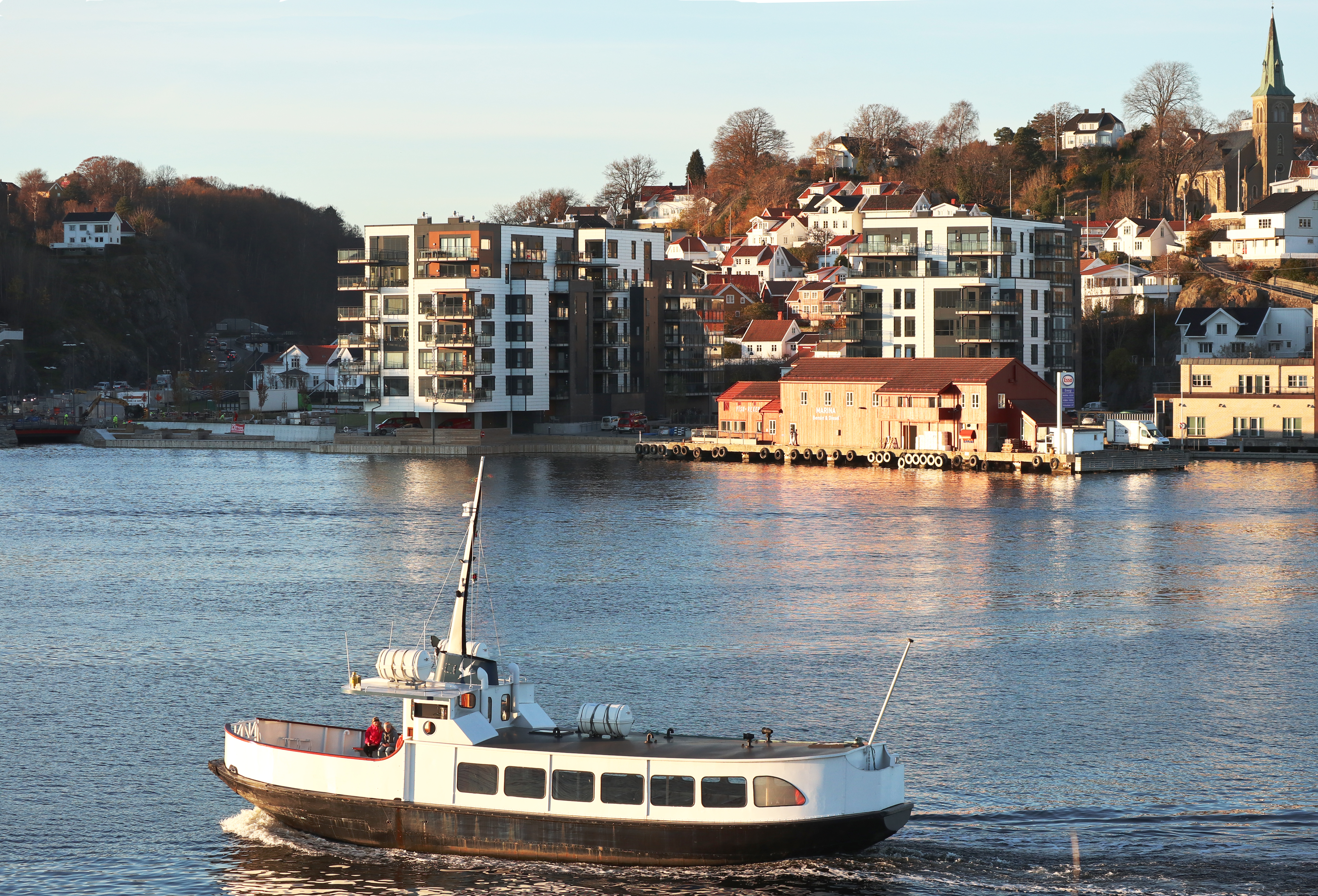 Strandstedet Barbu Arendal